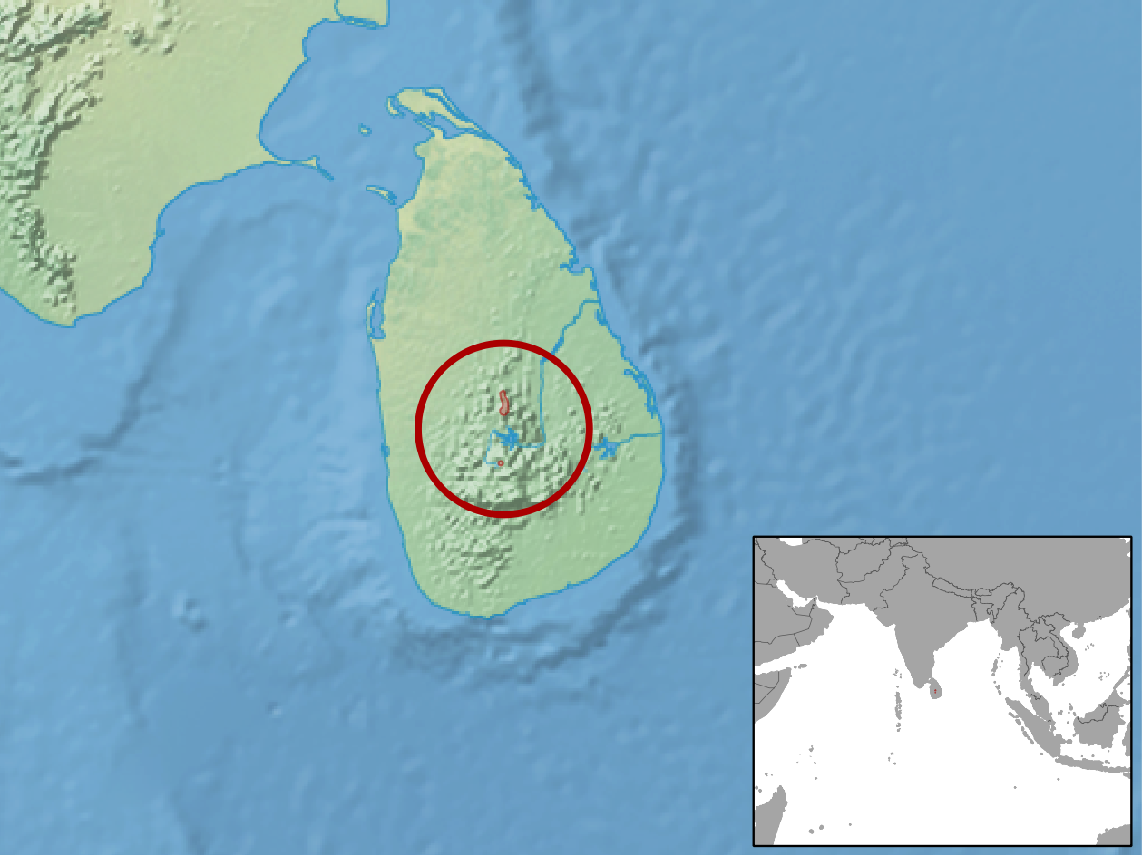 geographic distribution of Vandeleuria nolthenii